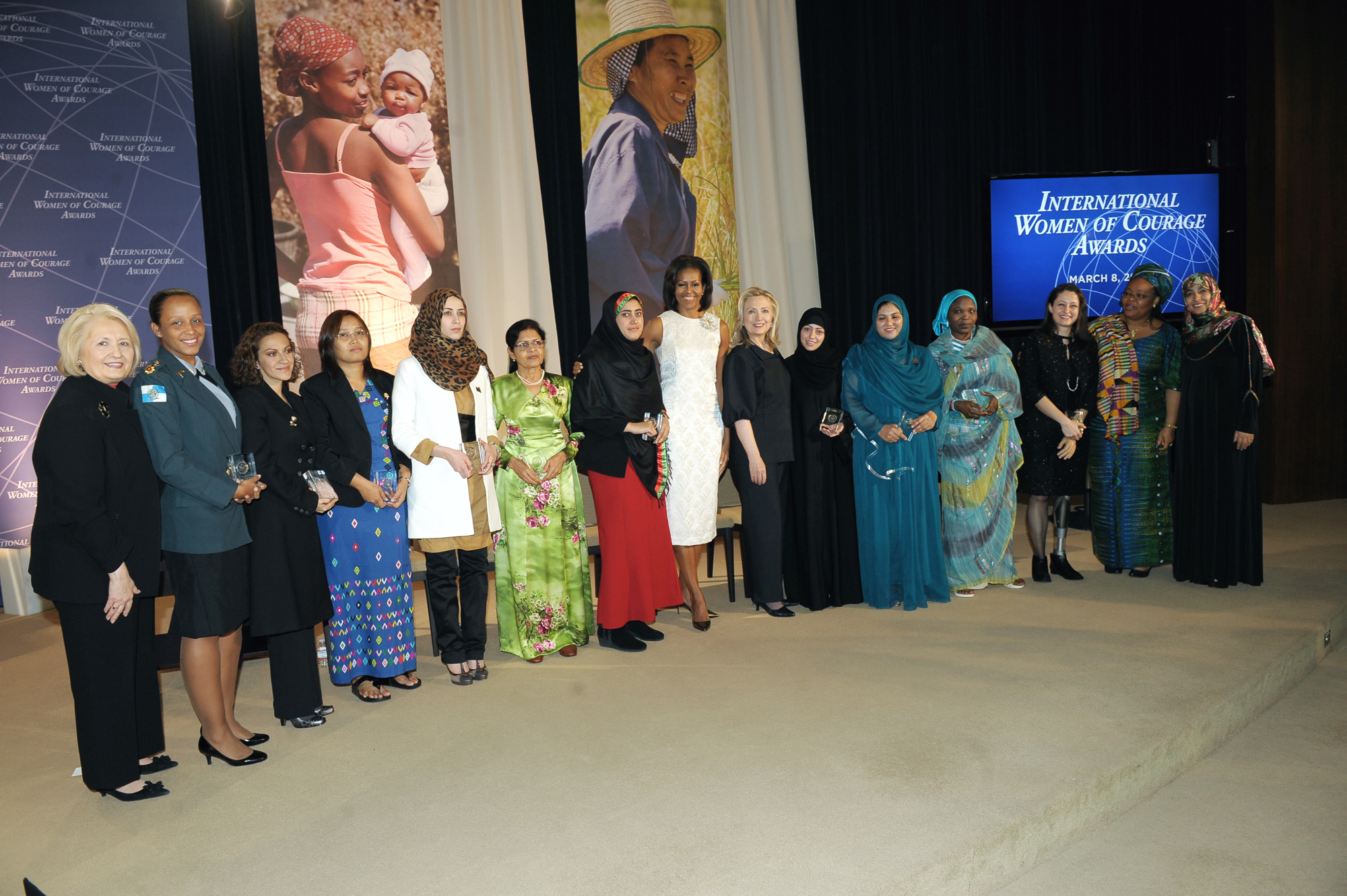 U.S. Secretary of State Hillary Rodham Clinton, center right; First Lady Michelle Obama, center left; and Ambassador-at-Large for Global Women's Issues Melanne Verveer, left; pose for a photo with the 2012 International Women of Courage Award winners at the U.S. Department of State in Washington, D.C., on March 8, 2012. [State Department photo/ Public Domain]